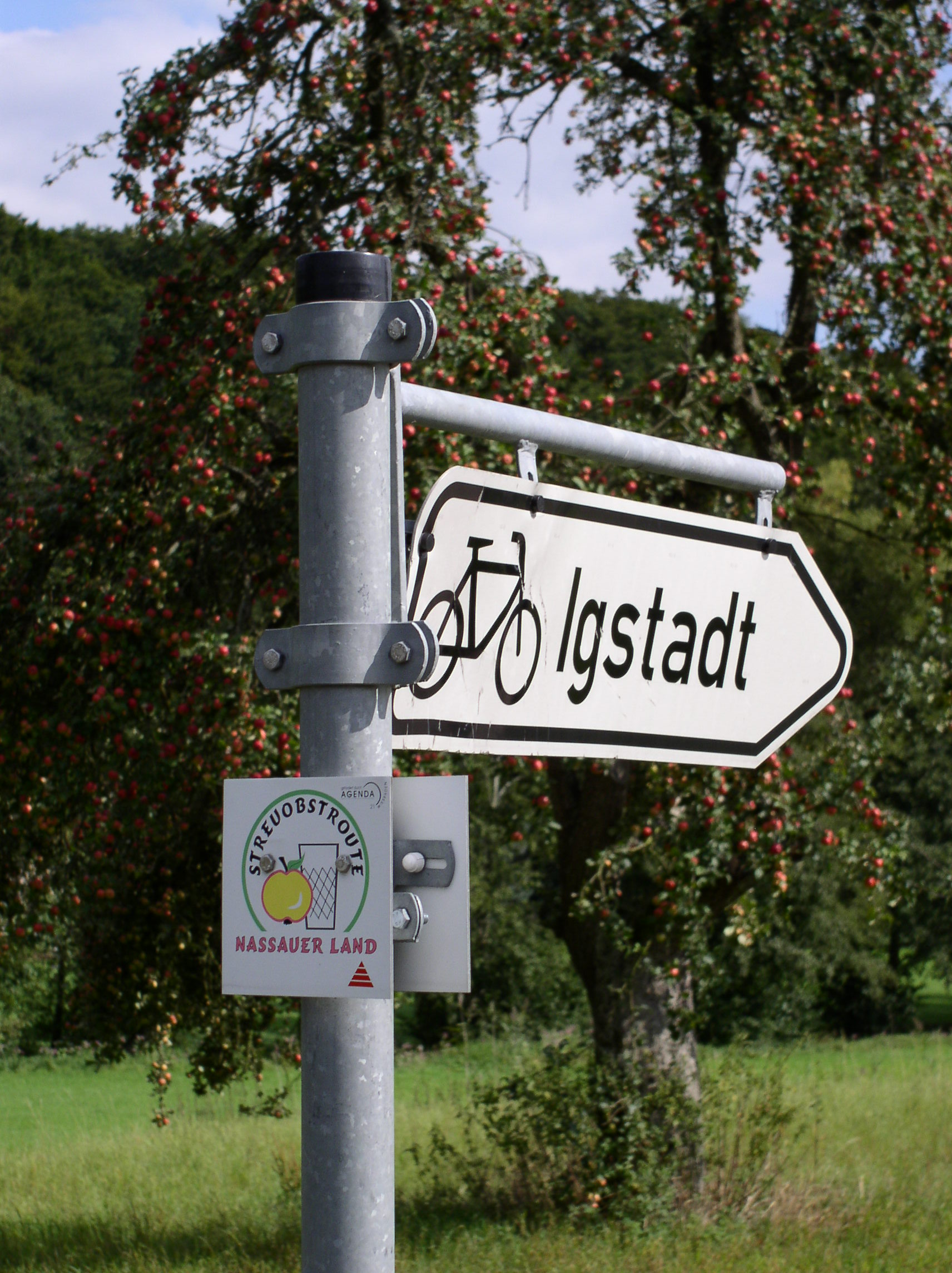 Signposting of the appletrail near Wiesbaden-Igstadt